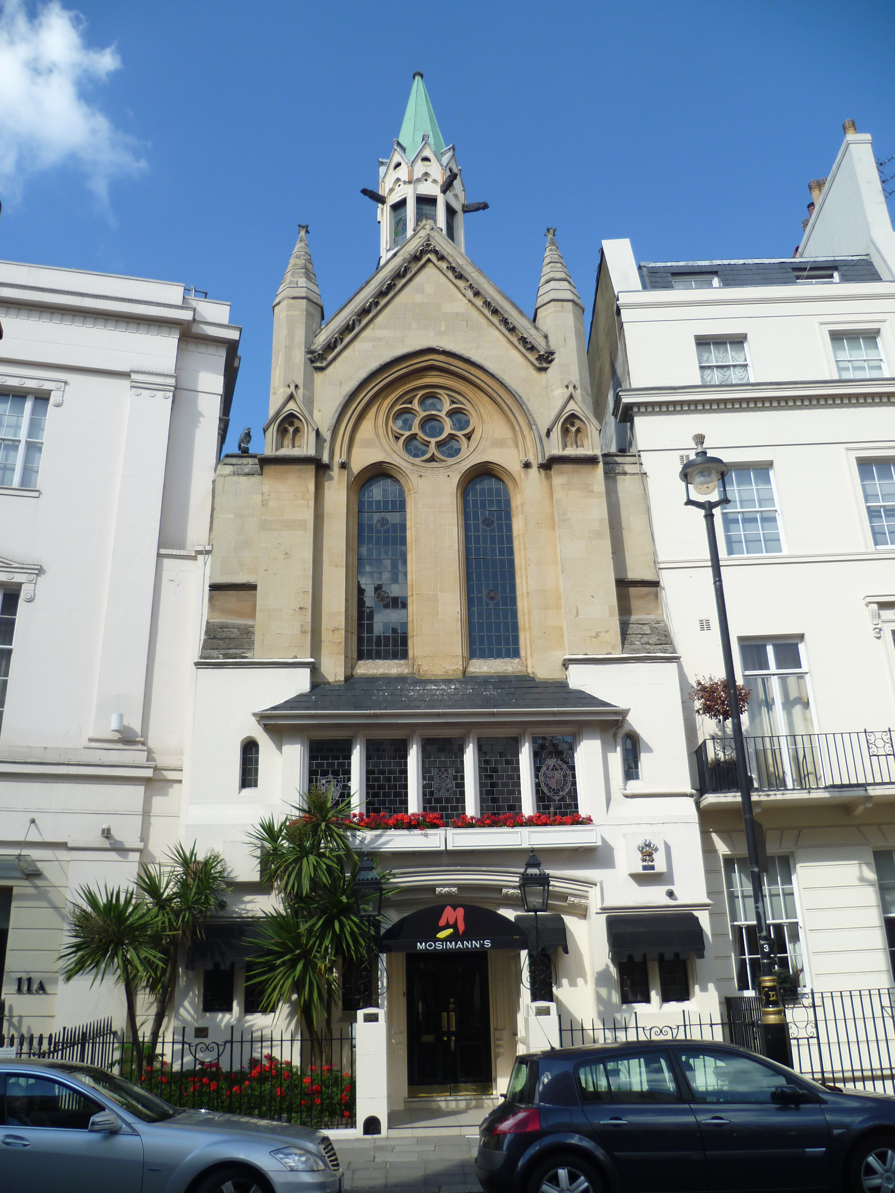 West Halkin Street